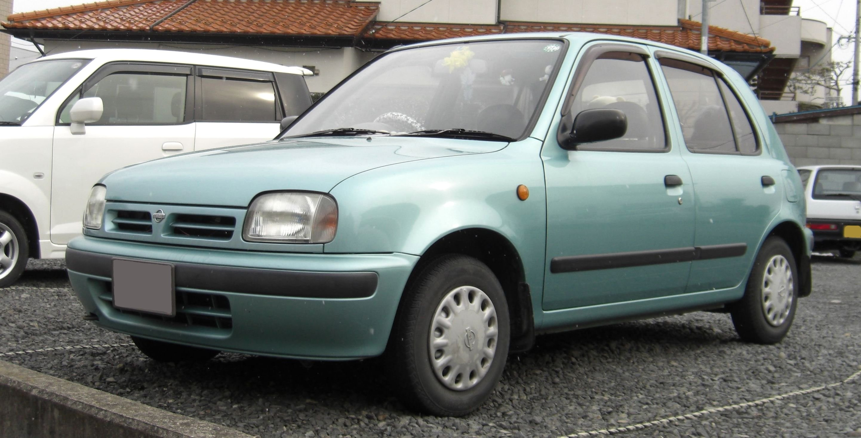 Nissan March